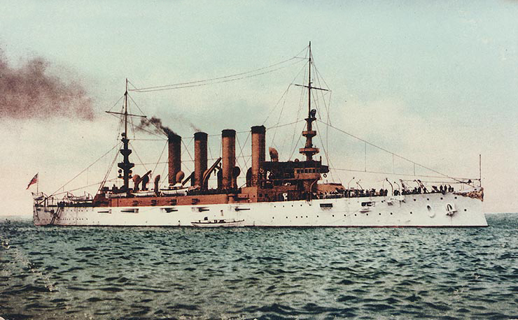 USS Pennsylvania, circa 1905-1908 USS Pennsylvania (Armored Cruiser # 4, later CA-4), 1905-1931. Renamed Pittsburgh in 1912 Removed caption read: Photo # NH 101229-KN Color-tinted postal card of USS Pennsylvania, circa 1905-1908 1289 - U. S. armored cruiser "Pennsylvania." 800 officers and men. Length 502 feet. Main battery 18 guns. from Naval Historical Center.